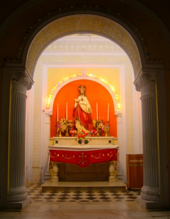 Interior of the Sardhana Catholic Church, Sardhana. Meerut.